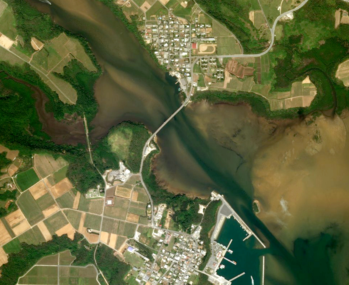 Japan, Iriomote Island: aerial view of the Nakama River's estuary.